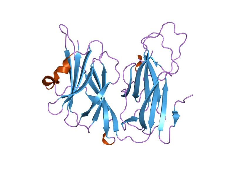 Cartoon representation of the molecular structure of protein registered with 1yjl code.